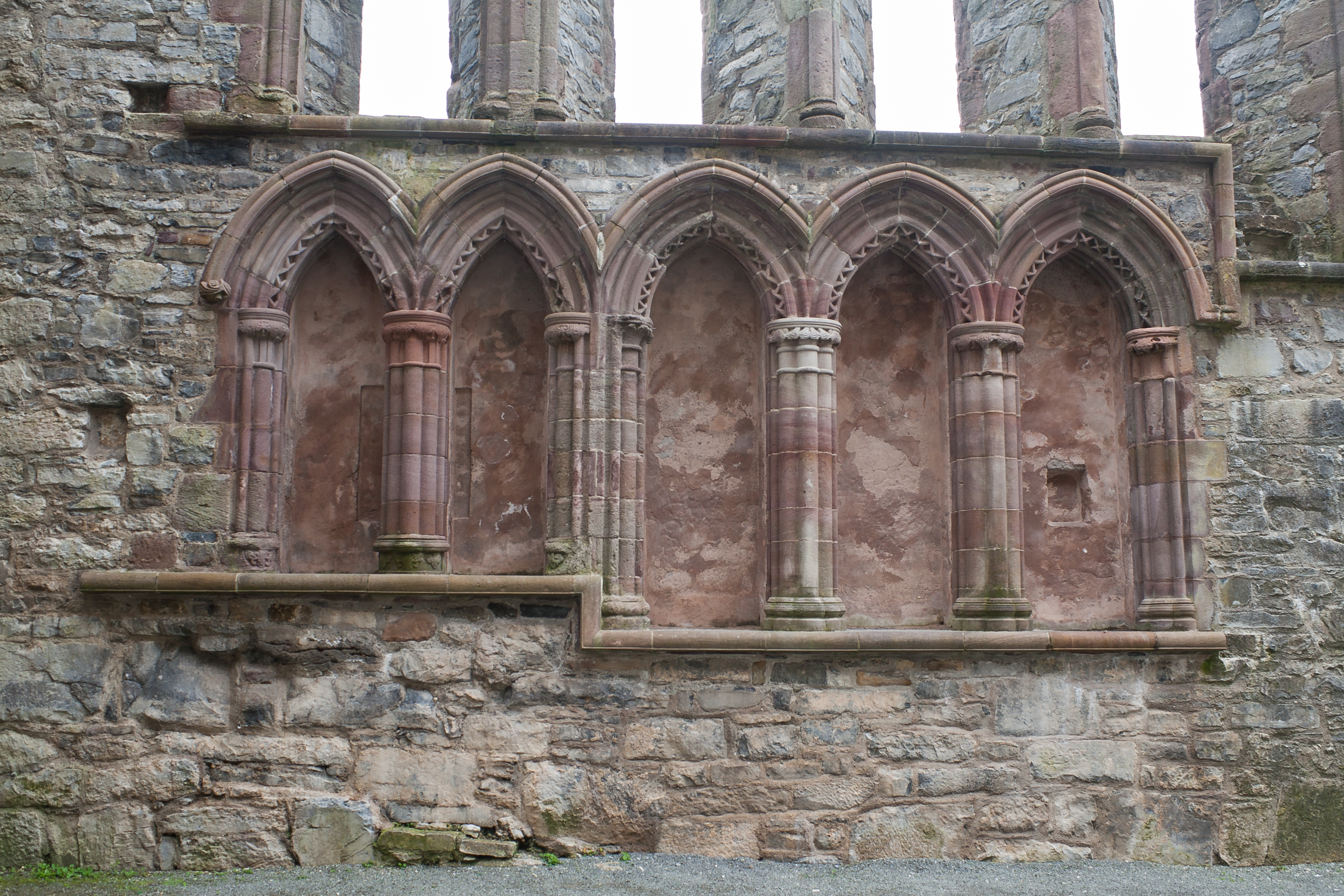 Restored piscina and sedilia in the south wall of the choir. Note that this is a recent restoration, the previous state can be seen from photos by Edwin Rae and Roger Stalley.